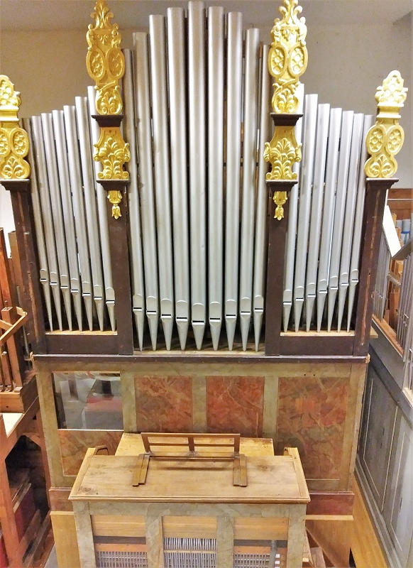 Orgel- und Spieltischsammlung im Untergeschoss der Zollingerhalle (Orgelzentrum Valley)